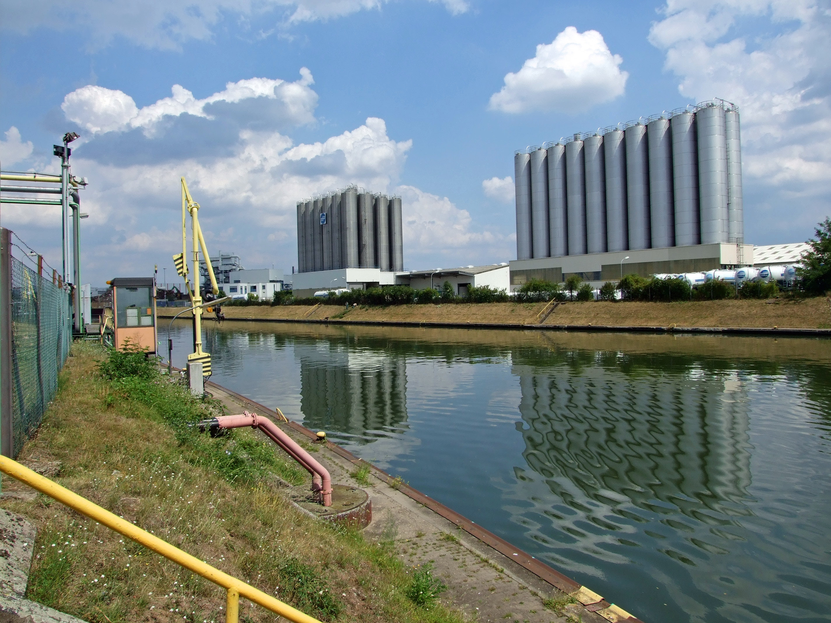 Osthafen, Oberhafen II (eastern part of habor, basin II), Frankfurt am Main Ostend/Fechenheim